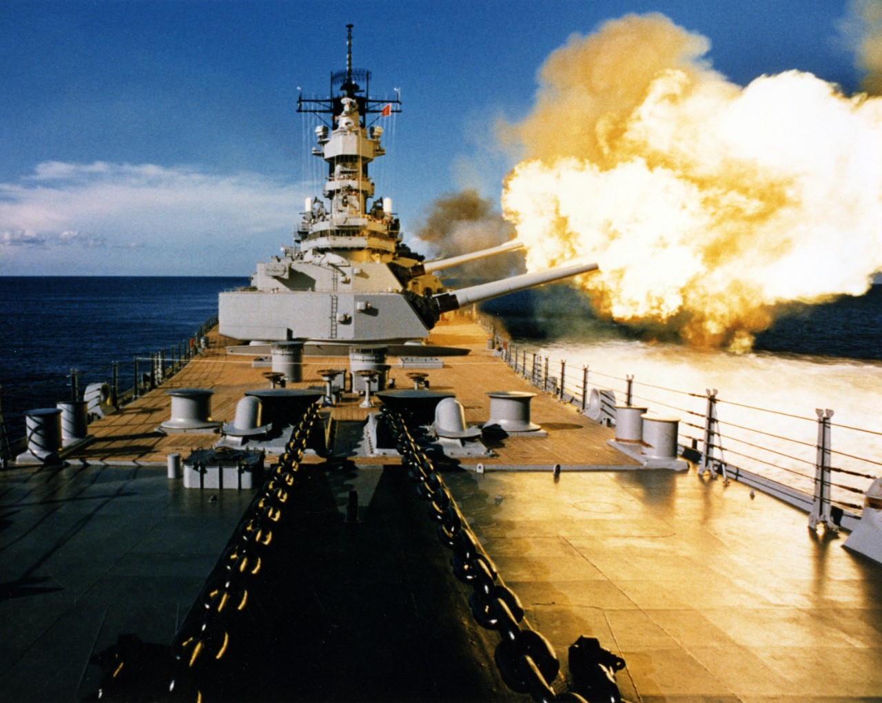 USS Wisconsin firing a broadside to port with her 16/50 and 5/38 guns, circa 1988-91. Official U.S. Navy Photograph, from the collections of the Naval Historical Center.